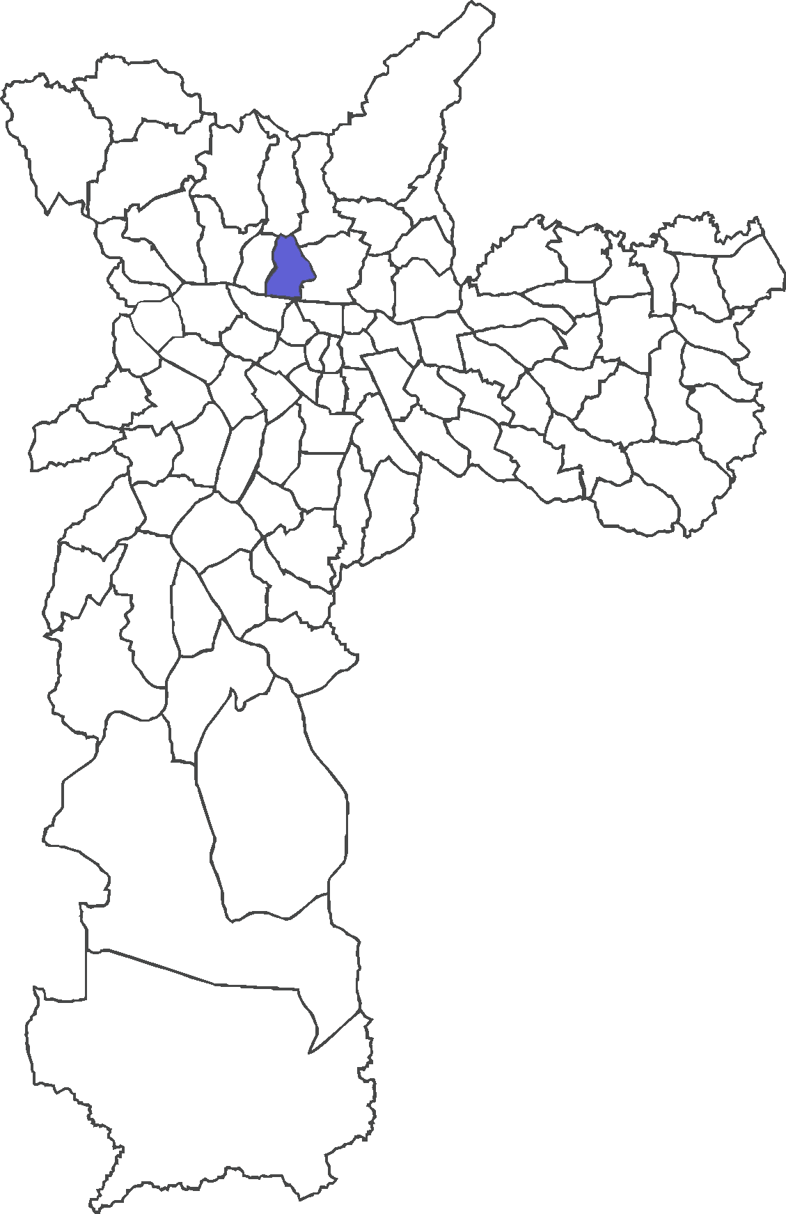 Location of Casa Verde district in the city of São Paulo